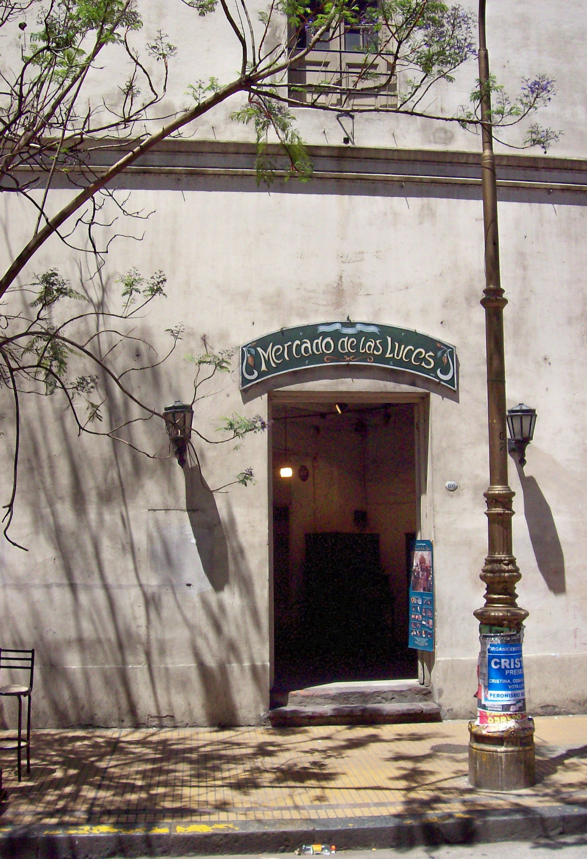 Manzana de las Luces, in "Barrio de Monserrat", Buenos Aires, near Plaza de Mayo. Entrance to the handicrafts' market, NW corner (Perú y Julio Argentino Roca)